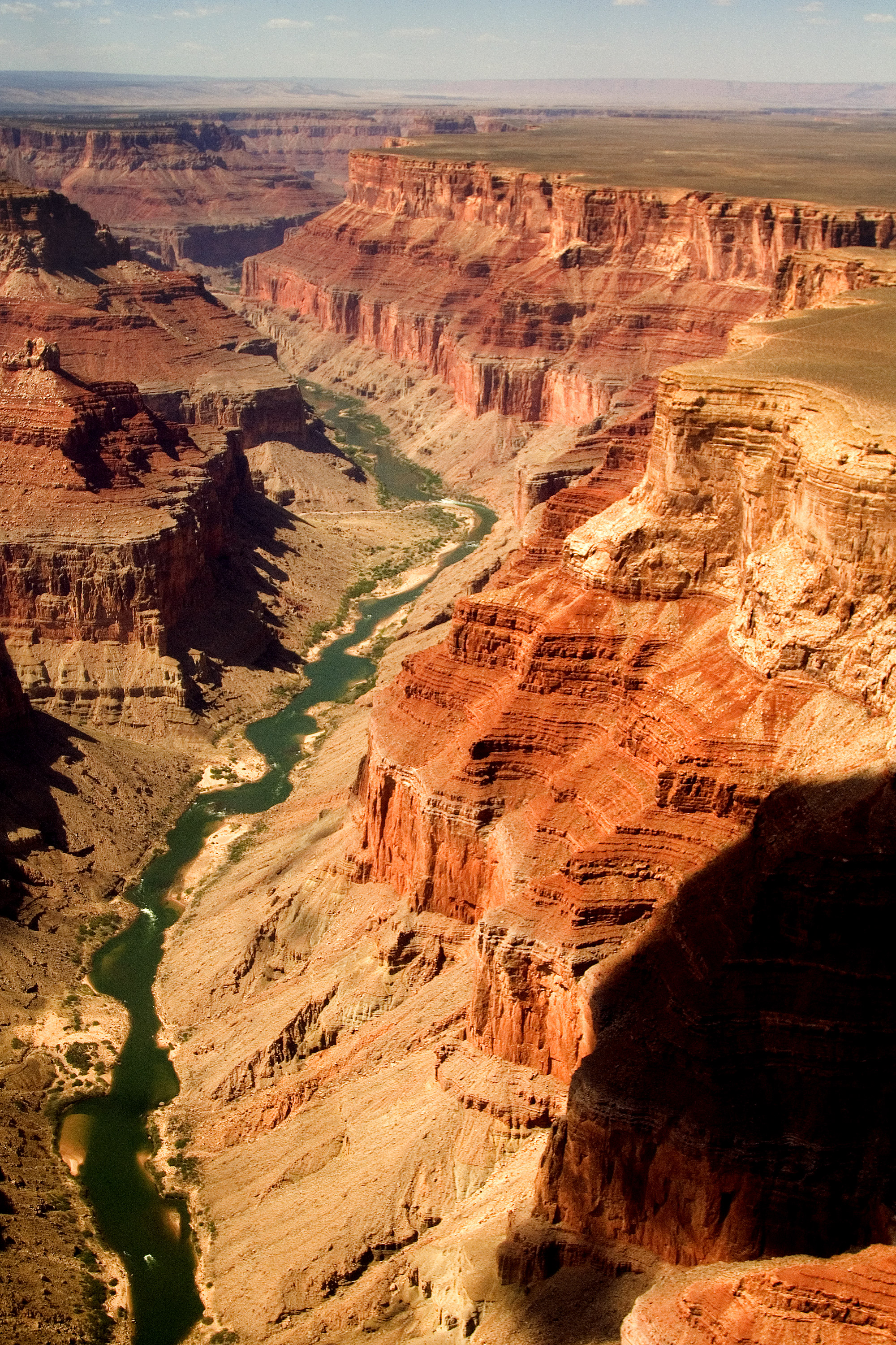 Grand Canyon, View north from Cape Solitude; Marble Canyon - USA